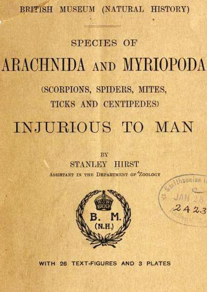 Cover of British Museum publication